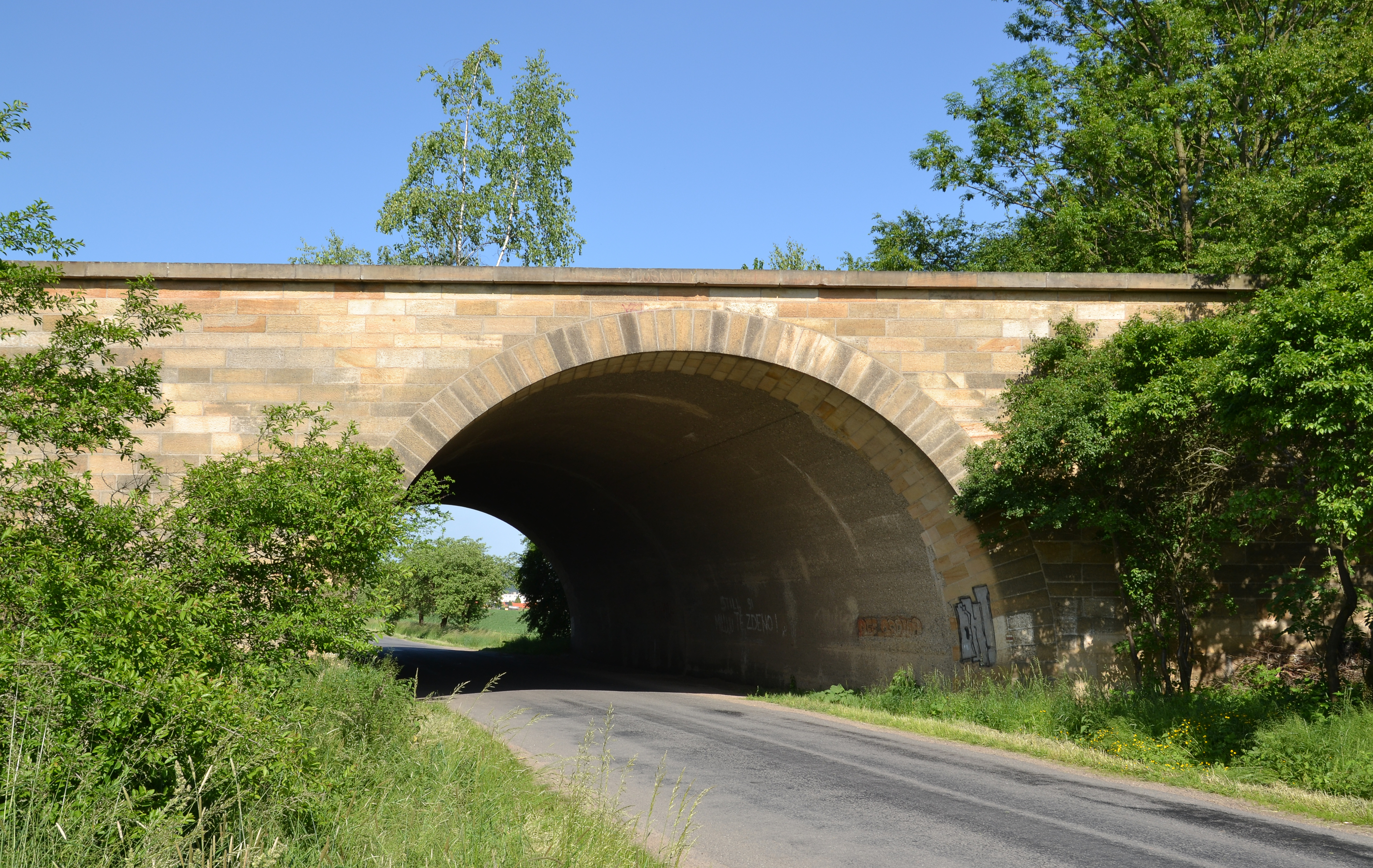 Jevíčko (Gewitsch), Moravia - Highway bridge of unfinished extraterritorial highway Vienna-Breslau